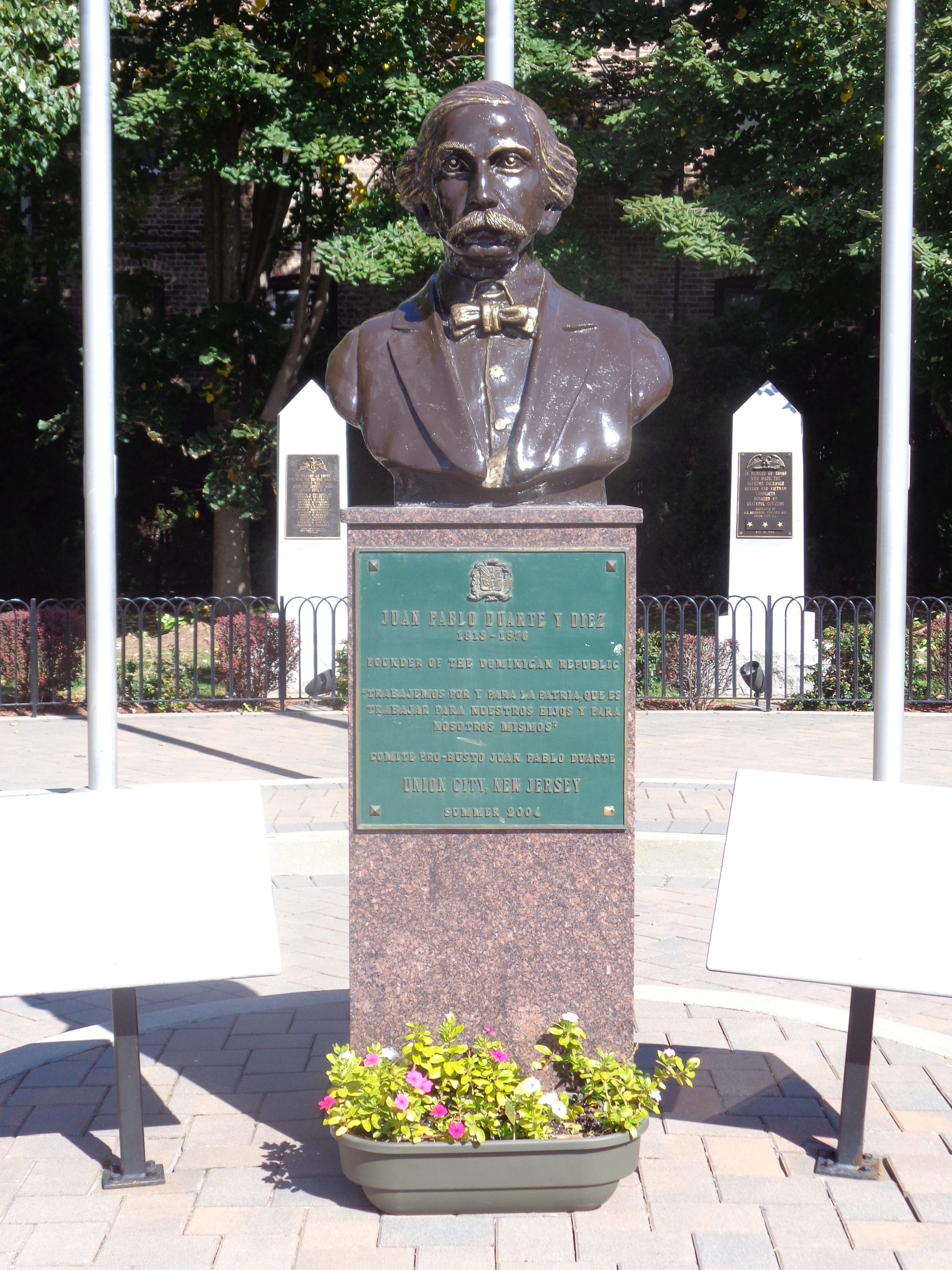 Bust in Juan Pablo Duarte Park Union City